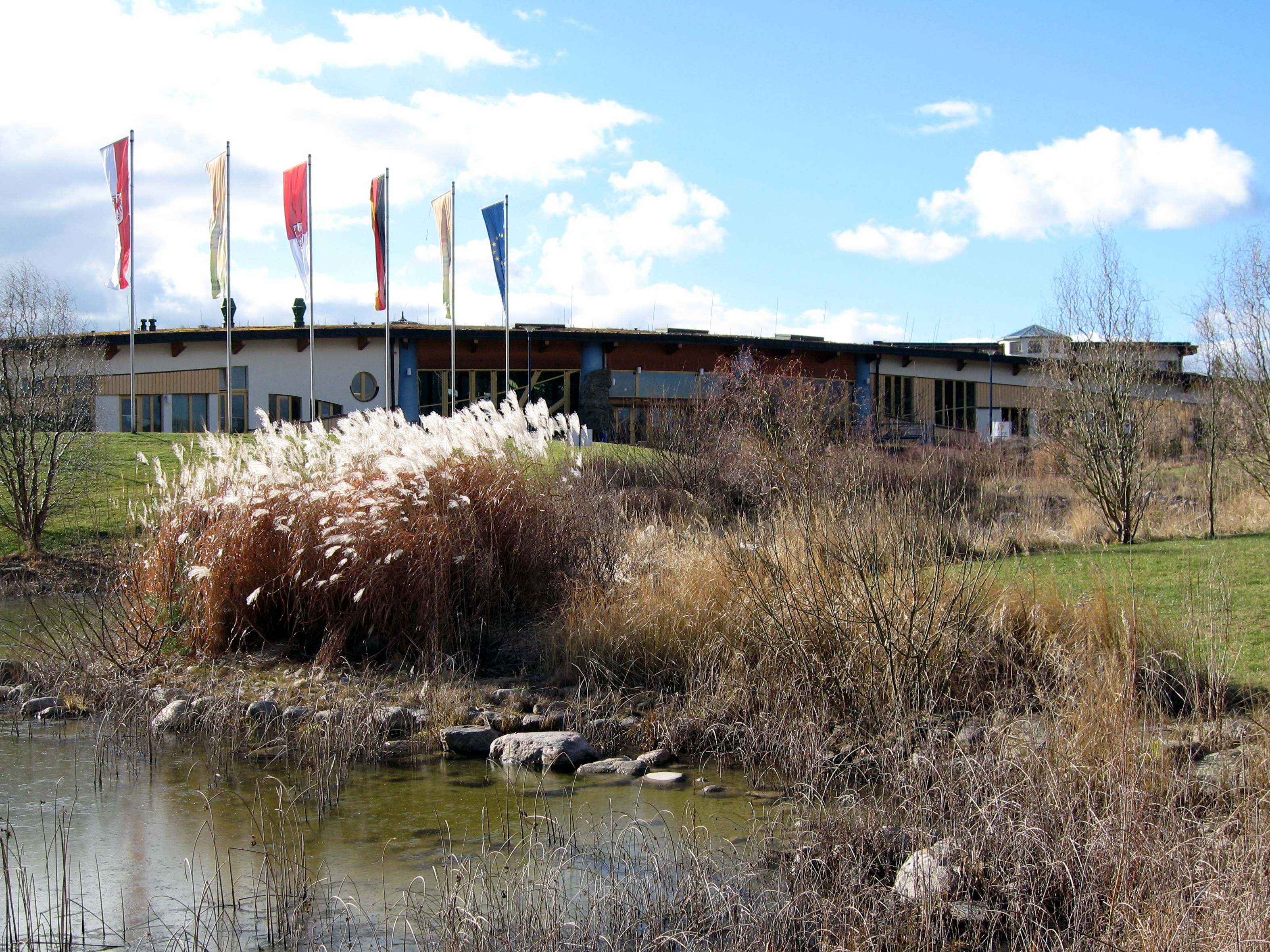 Natur Therme Templin, Templin, Uckermark, Brandenburg, Germany